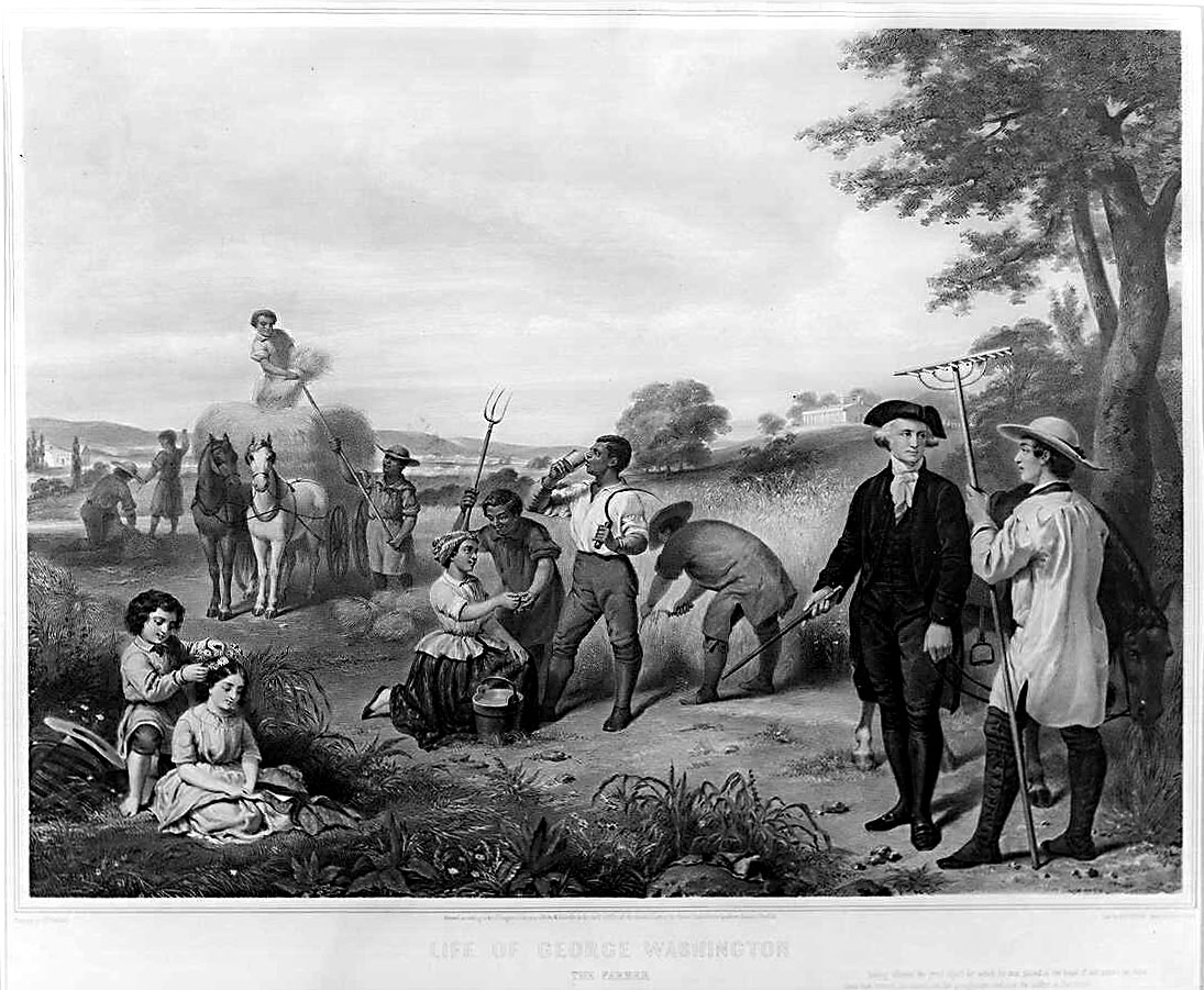 Washington standing among African-American fieldworkers harvesting grain; Mt. Vernon in background.